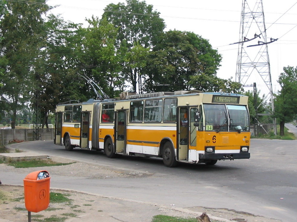 Timişoara trolleybus 6, a 1993 Rocar DAC 217EA, at the Strada Ion Ionescu de la Brad terminus (the northern end of route 14).